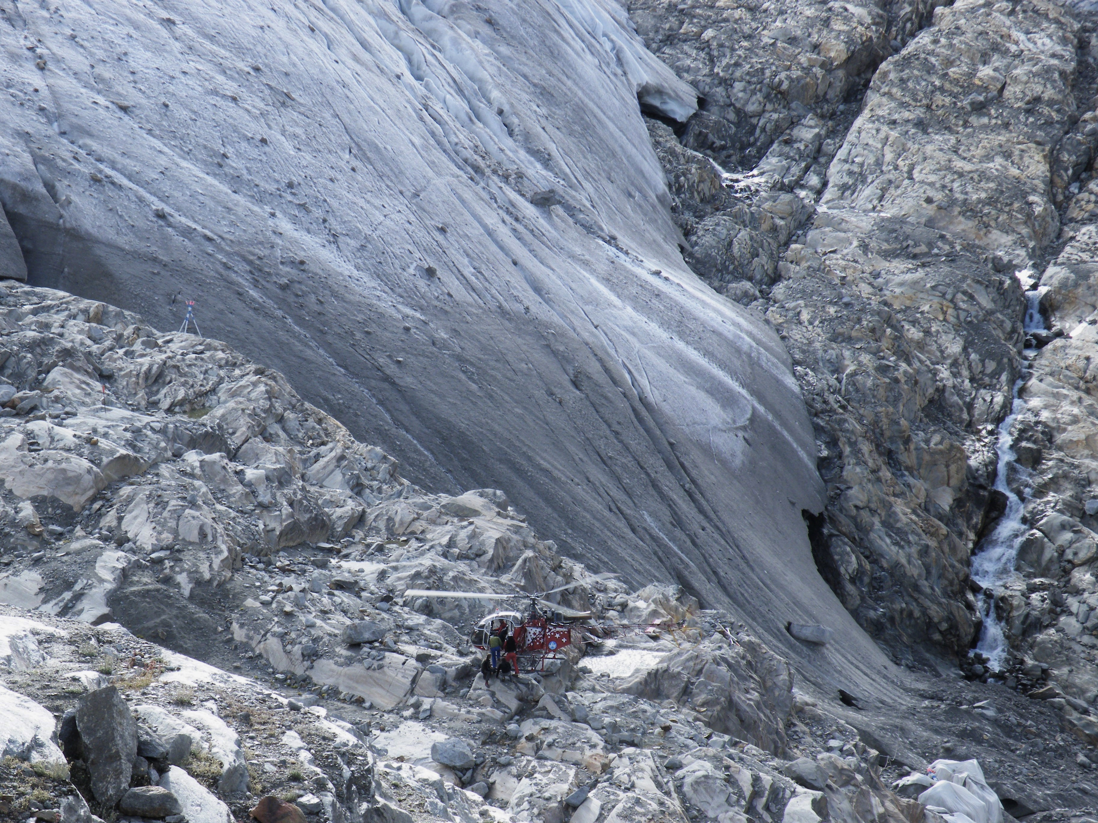 Helicopter rescue is very quick when terrain is difficult and a long distance away. This photo is from Monte Rosa massif, Switzerland.